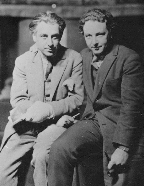 French film director Abel Gance (1889-1981) with Arthur Honegger (1892-1955)